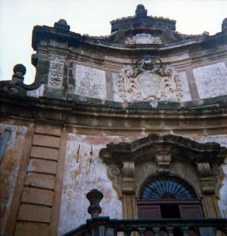 Villa Palagonia in Bagheria (Pa, Italy) by Tommaso Maria Napoli. It was built from 1715 for Francesco Ferdinando Gravina Cruyllas, Prince of Palagonia in Sicily.